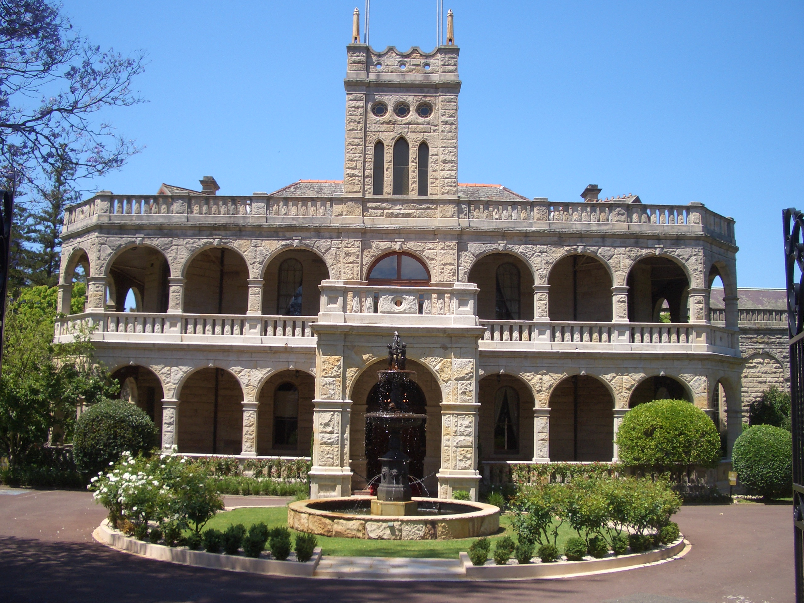 Curzon Hall, Marsfield, Sydney